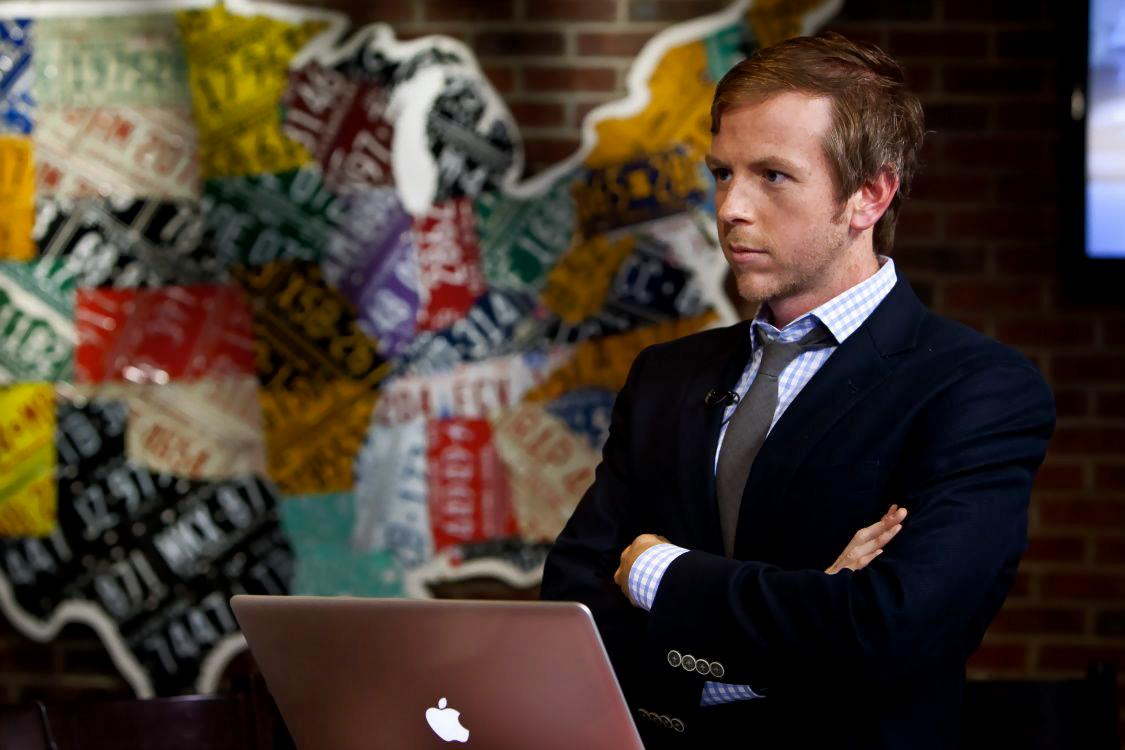 Hamby at the Democratic National Convention in 2012